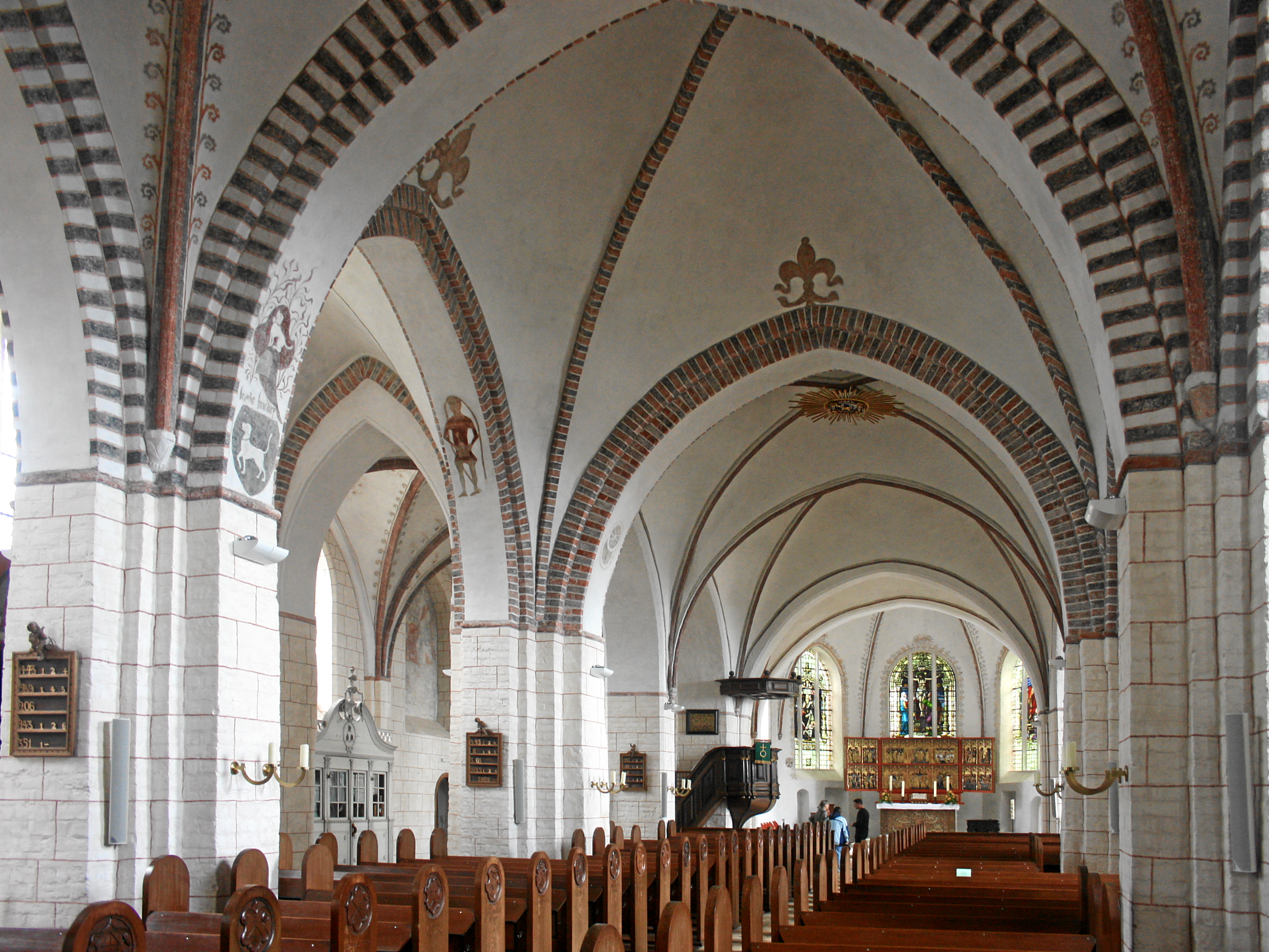 Fehmarn, Germany. Protestant parish church Saint Nicholas, nave towards East.